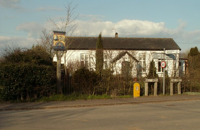 Cratfield village sign